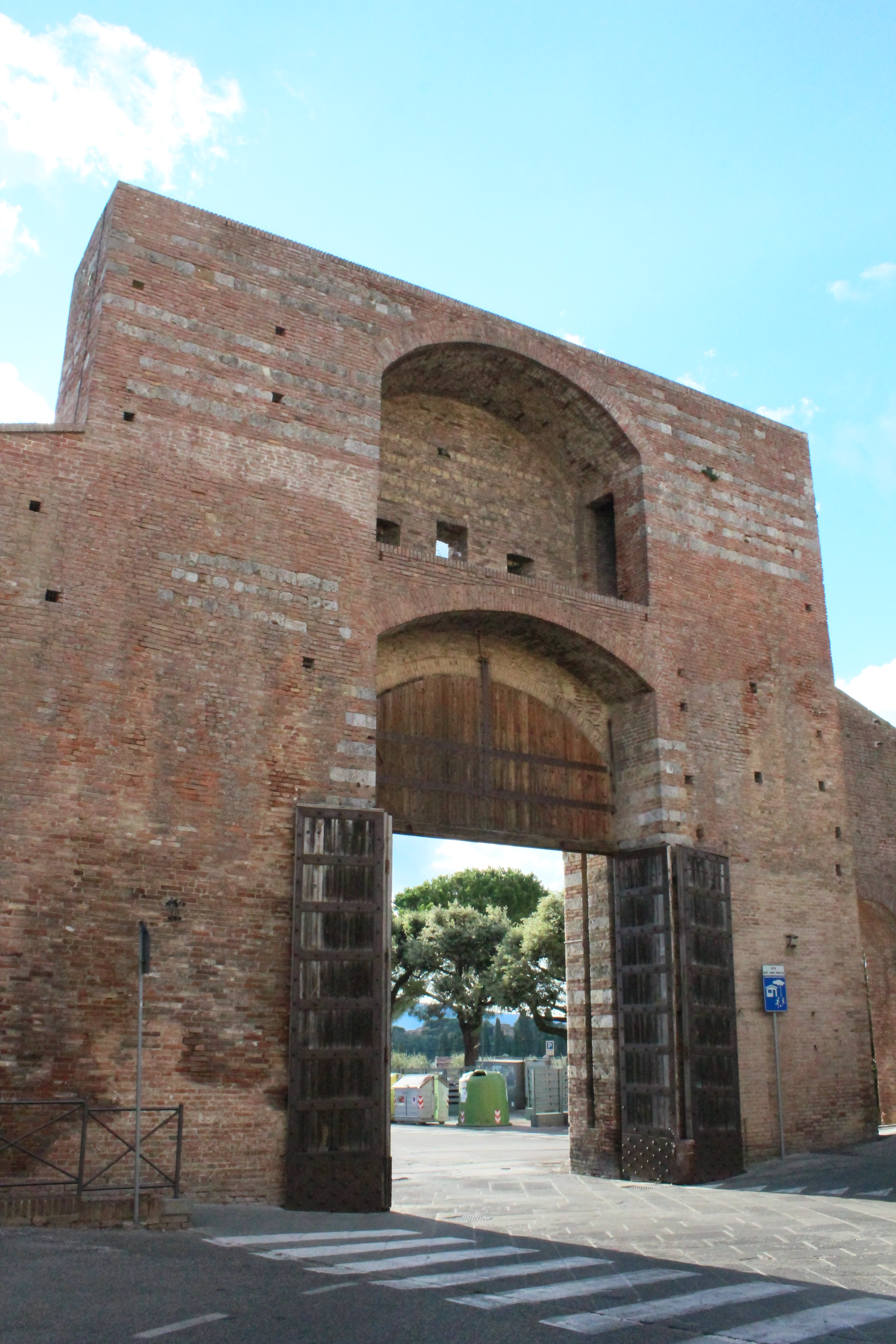 Porta San Marco, Siena (Inside), Province of Siena, Tuscany, Italy